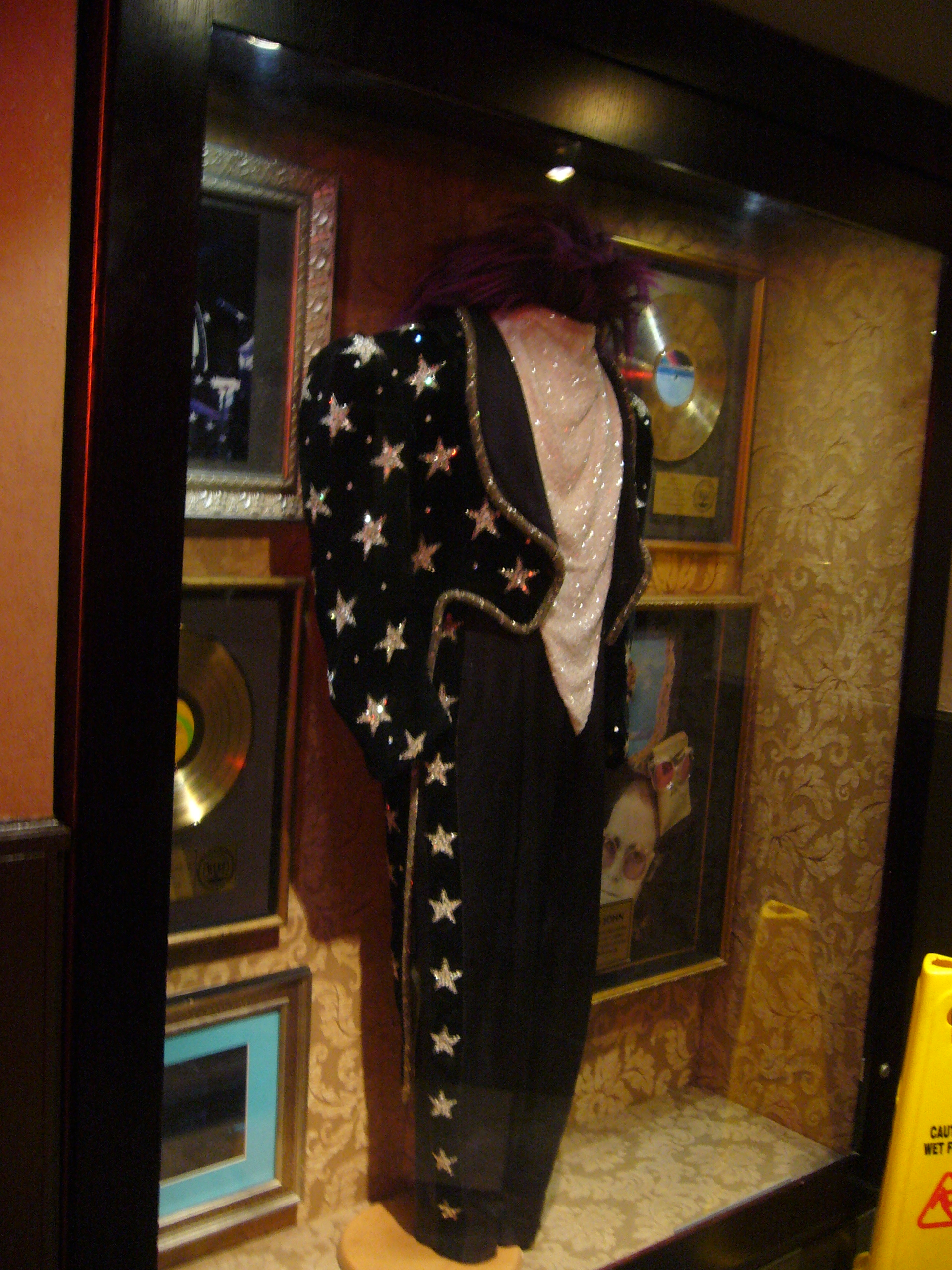 Elton John's costume (1986) during the Tour de Force